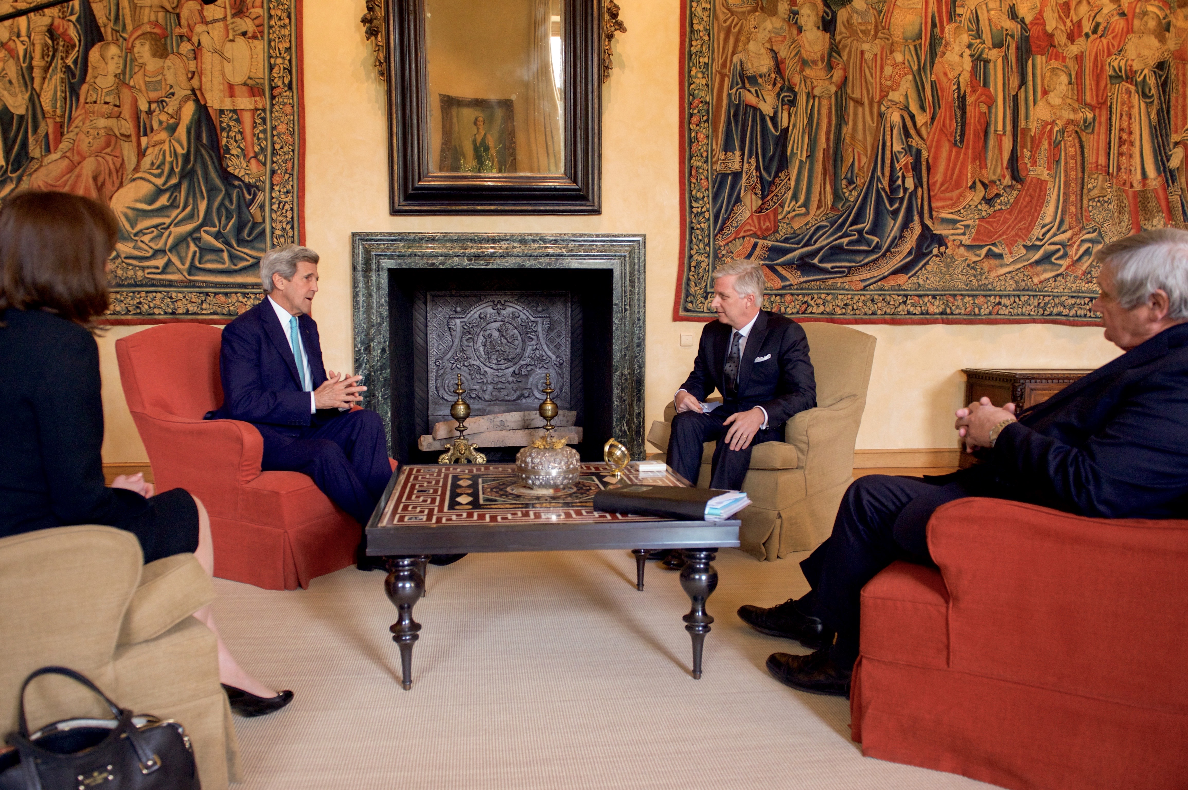 U.S. Secretary of State John Kerry, joined by U.S. Ambassador to Belgium Denise Bauer and Belgian Chief of Cabinet Frans Van Daele, sits with Belgian King Philippe after he arrived at the Royal Palace in Brussels, Belgium, on March 25, 2016, to pay condolences on behalf of the American people following the twin terrorists attacks earlier in the week on the city and country. [State Department photo/ Public Domain]